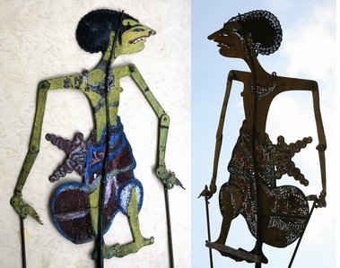 Maktal, wayang kulit figure from the epos Serat Menak Sasak